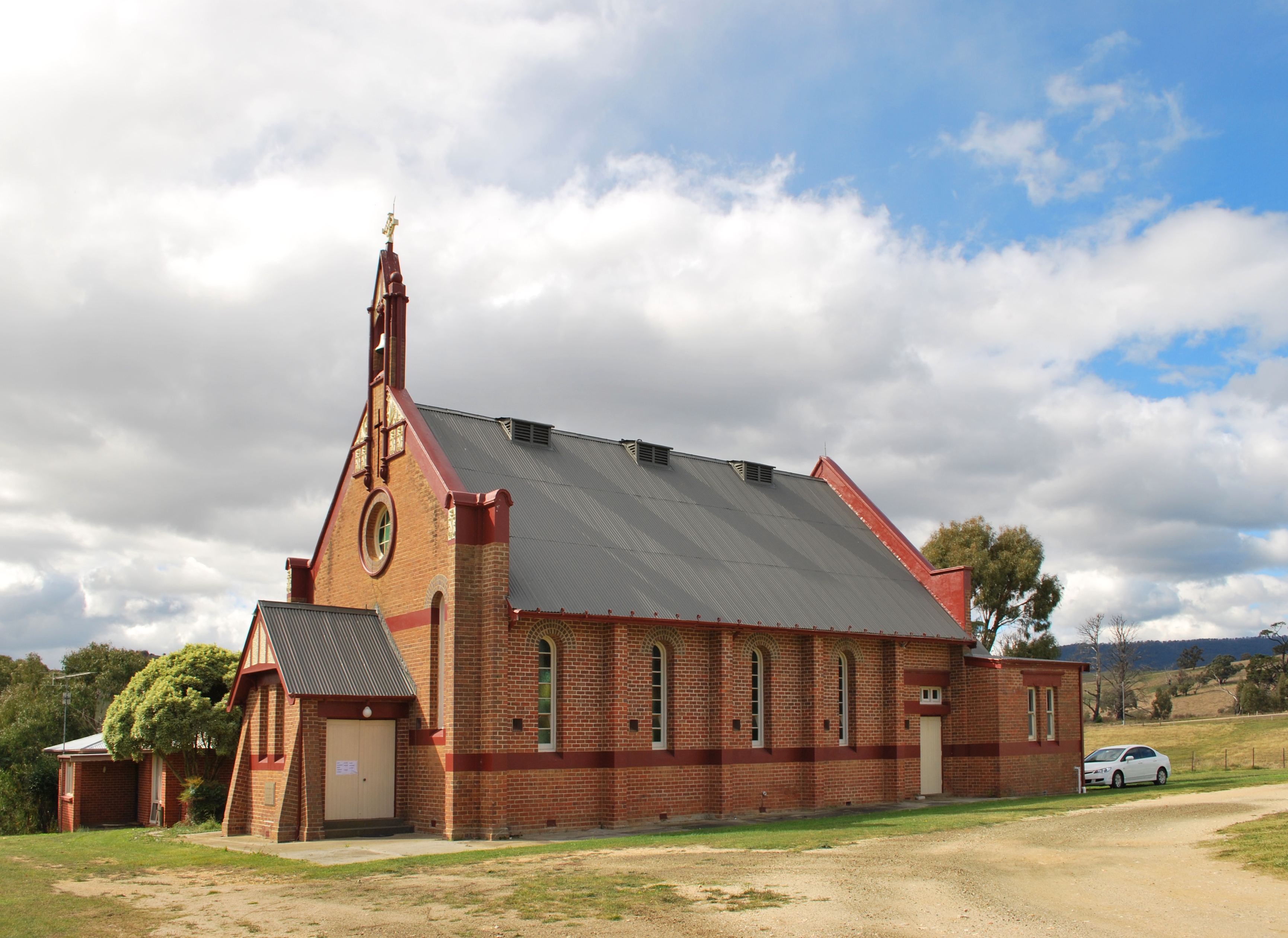 Immaculate Conception Roman Catholic church at Omeo, Victoria